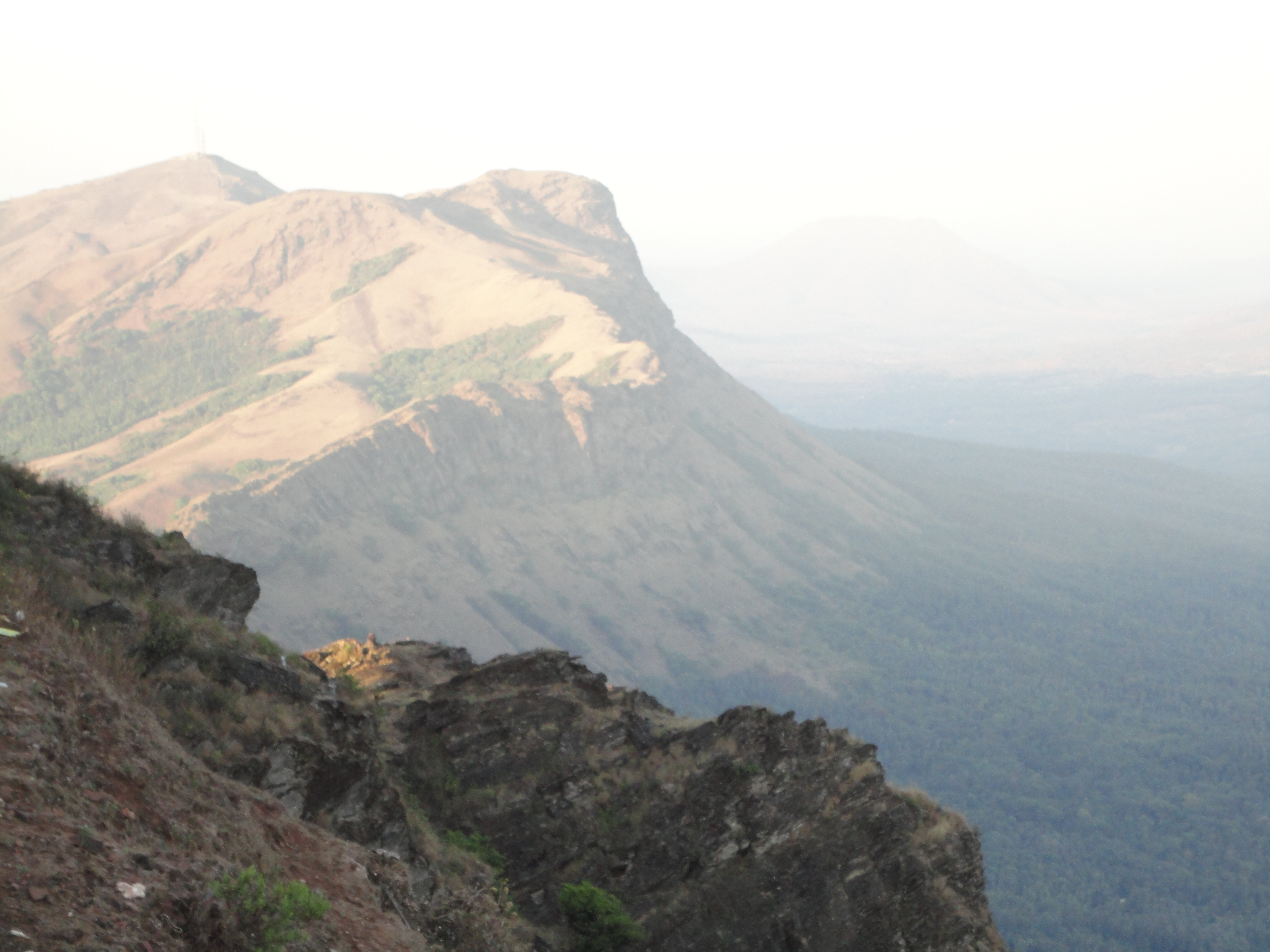 Mullayyanagiri